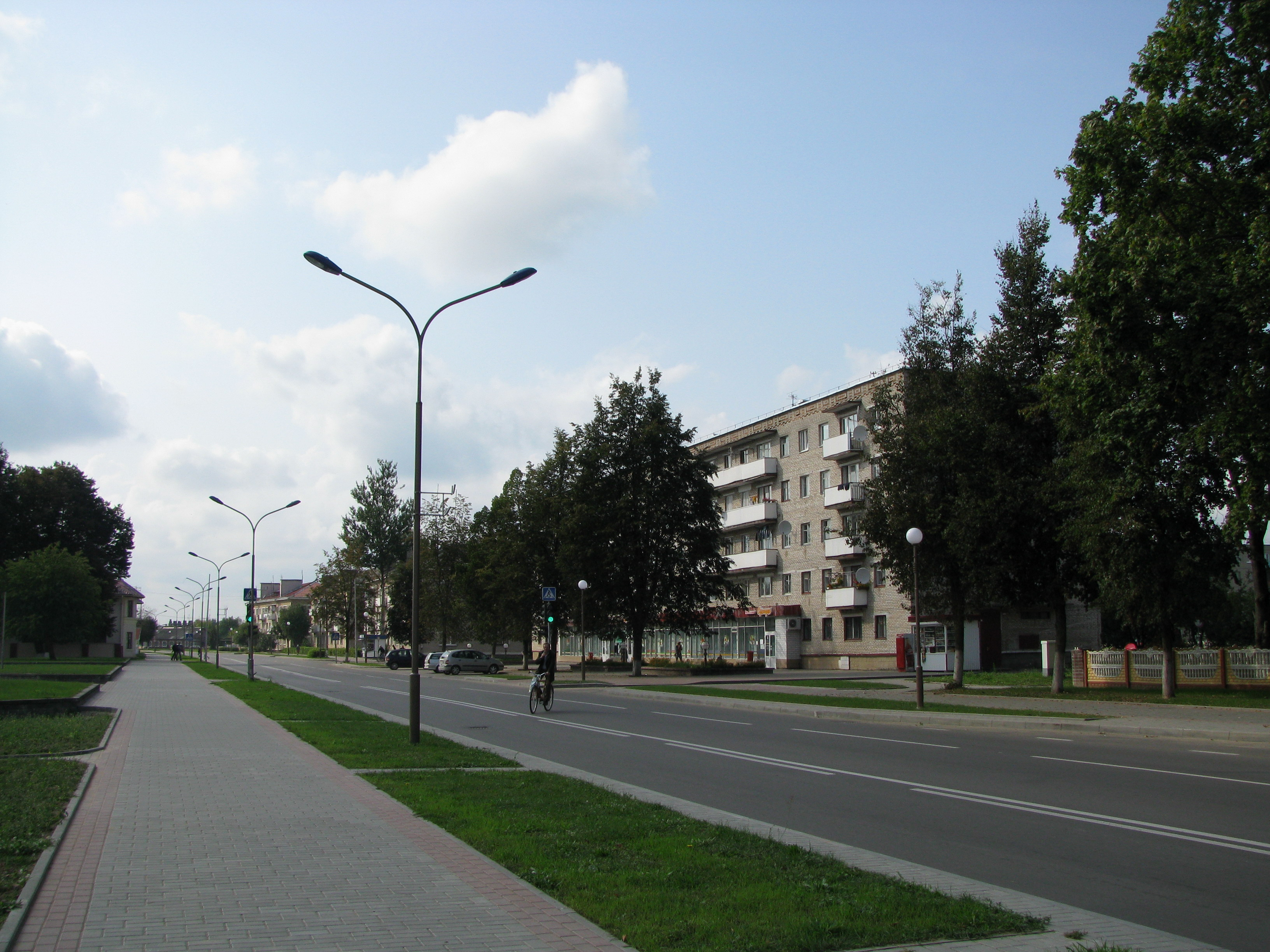 Street in Masty